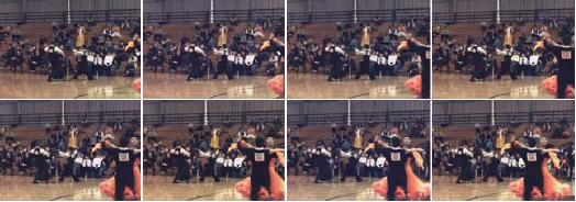 3D video sequence